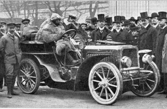 Ettore Bugatti arrives in Vienna, III. International Car Expo, driving a De Dietrich which he developed (De Dietrich-Bugatti)